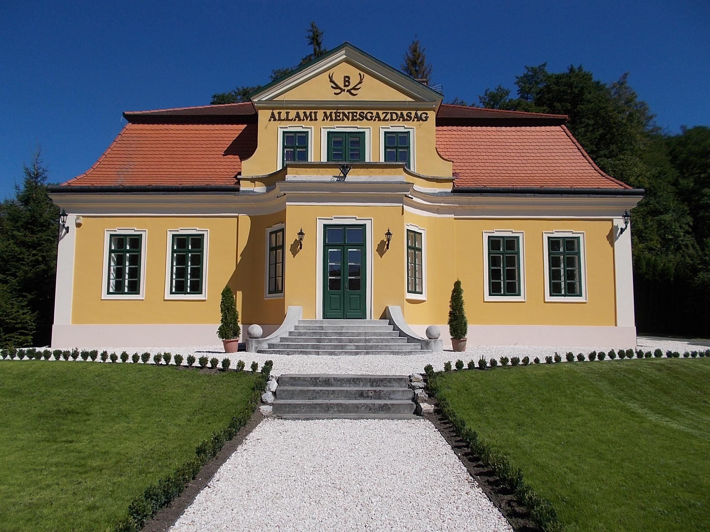 State Stud Farm. Former Manorial forest master villa. Forestry Office with garden. - Szilvásvárad, Heves County, Hungary.